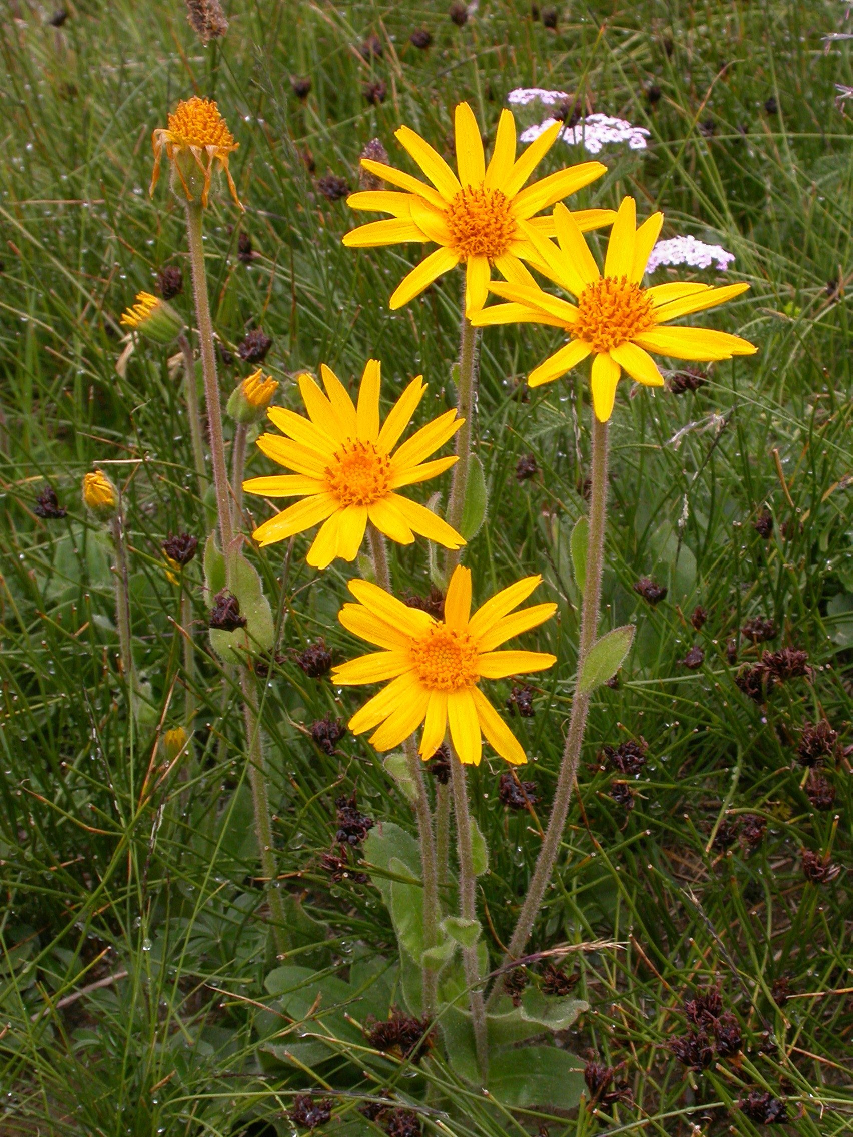 Arnica montana Zermatt, Riffelberg (Kanton Wallis, Switzerland), 2500 m Author: Barbara Studer – own photograph Date: 2.08.06